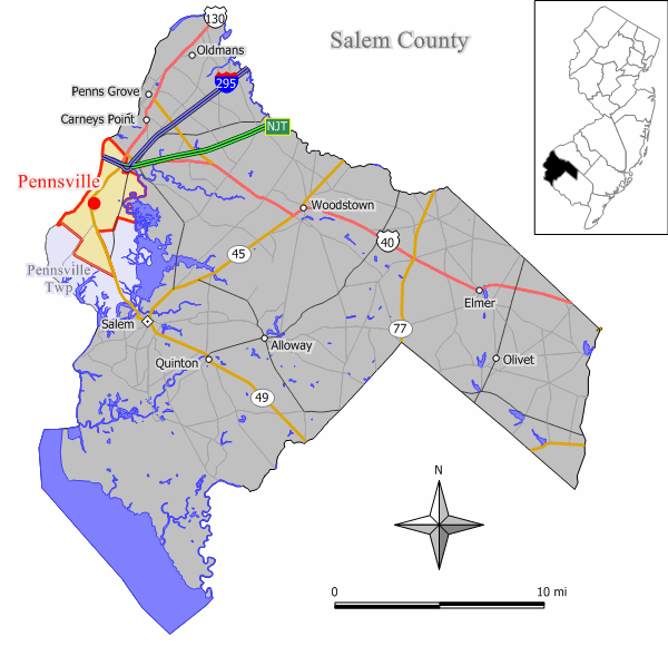 Source: Jim Irwin Original work by Jim Irwin, December 2005.